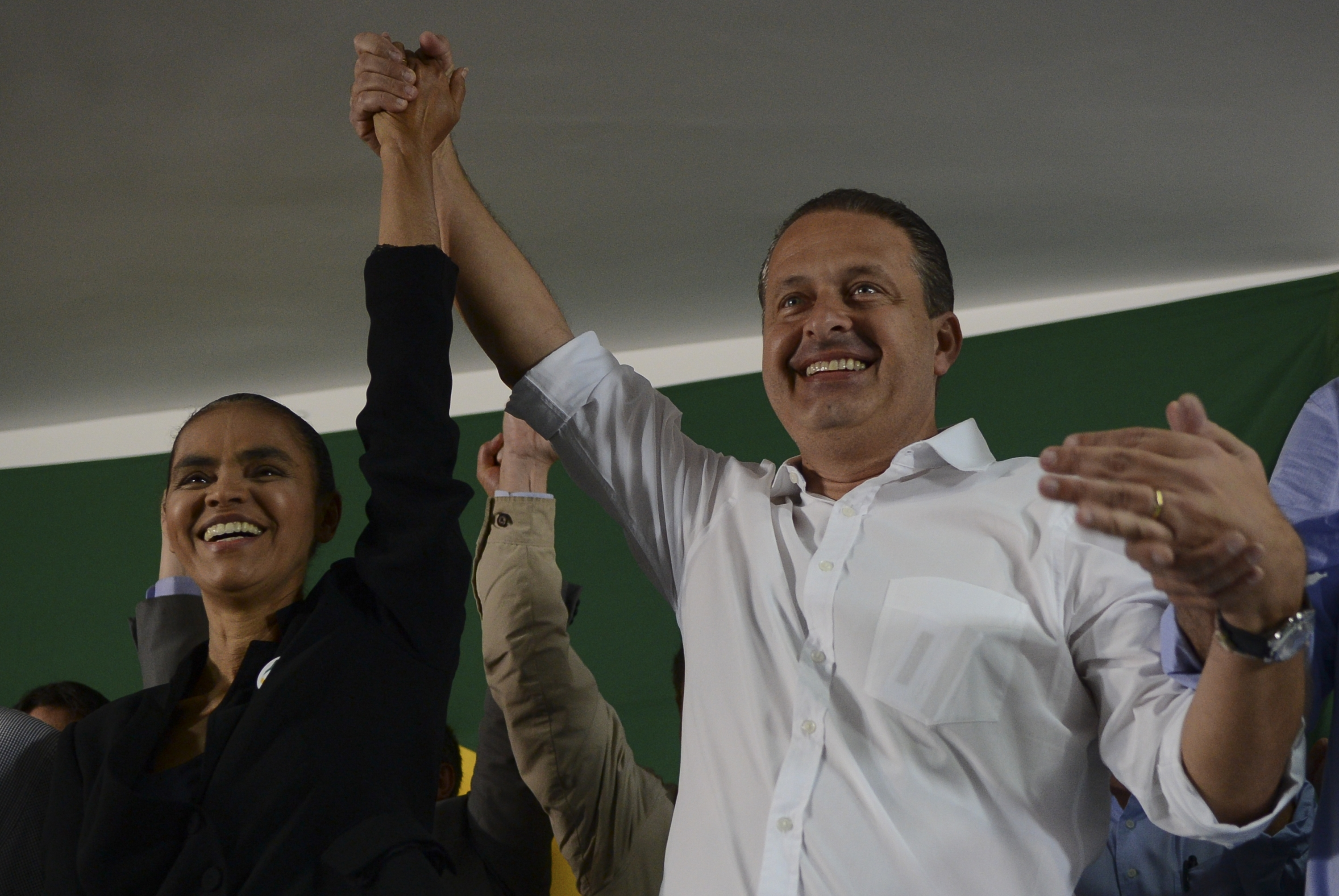 A ex-senadora do Acre Marina Silva se filia ao partido do governador de Pernambuco, Eduardo Campos.